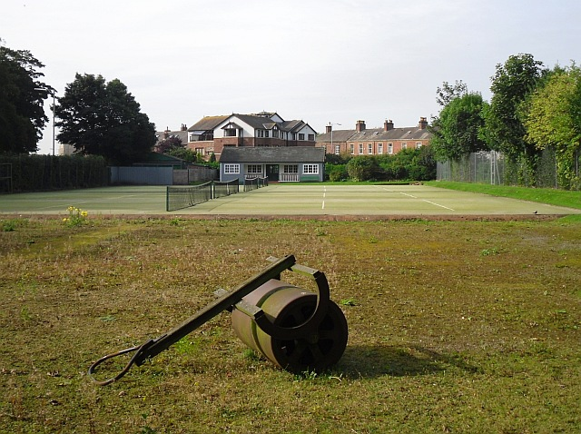 Tennis courts at Stanwix View from the churchyard, with terraced houses on Stanwix Bank in the distance.